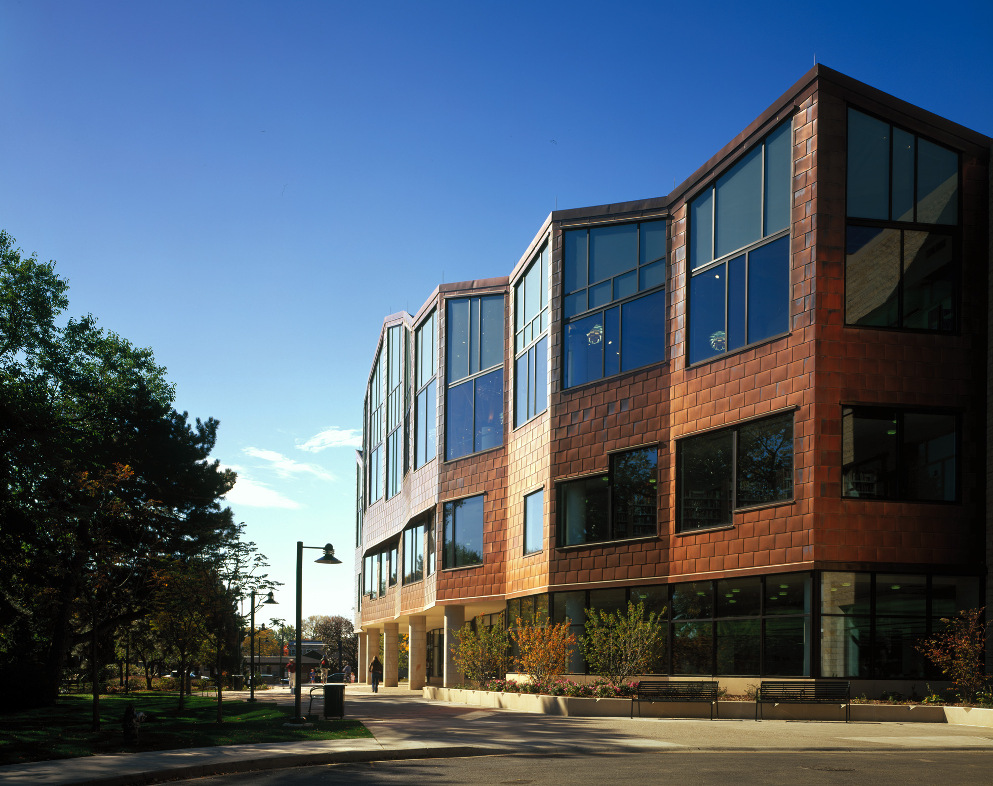 The Oak Park Public Library features a copper facade and a plaza which mediates between the building and Scoville Park.